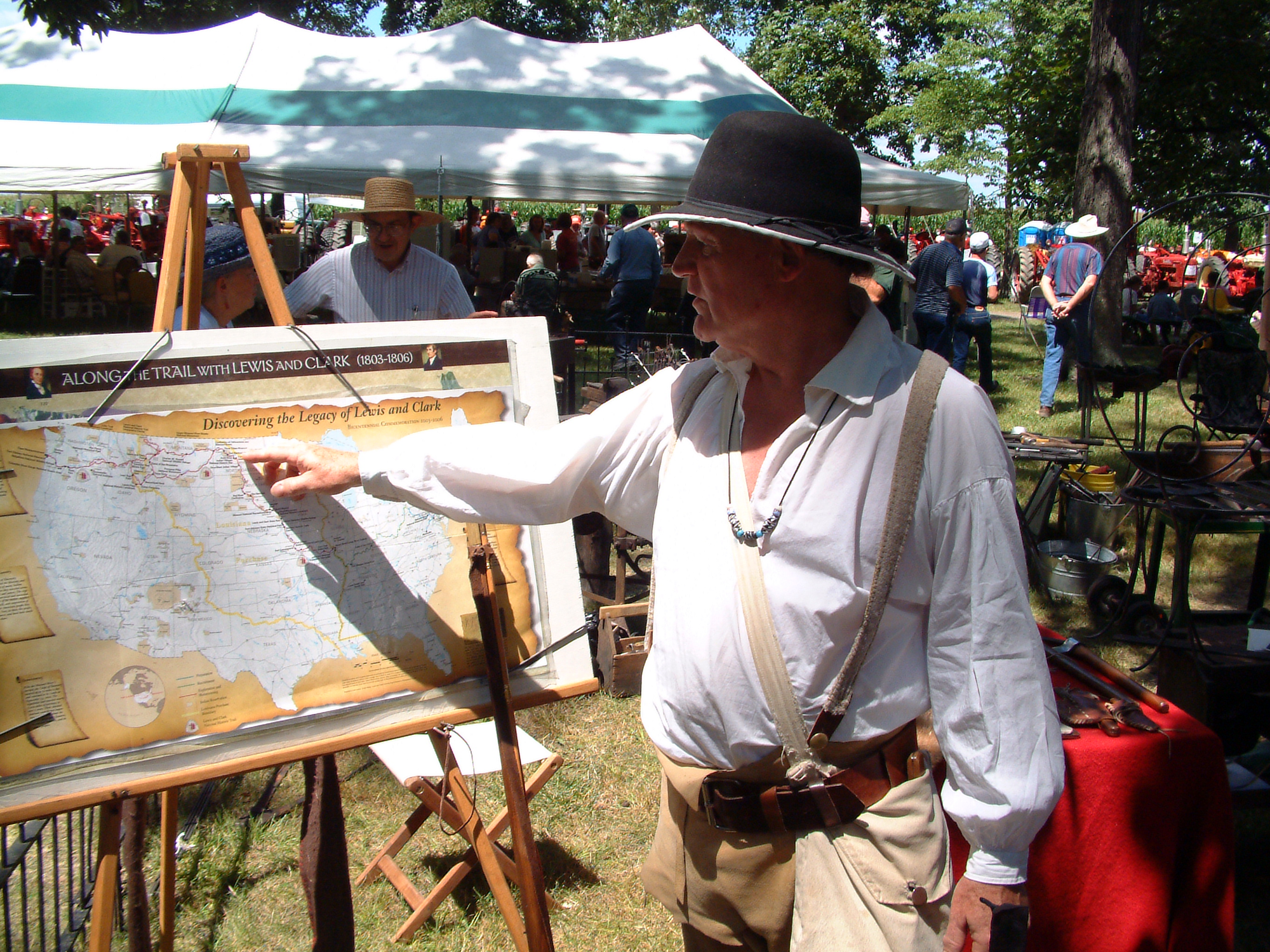 A historical reenactor at the 26th Illiana Antique Power Exhibition speaks about his experiences with the Bicentennial Commemoration of the Lewis and Clark Expedition. The exhibition is held in rural Warren County, Indiana, west of the town of Rainsville.